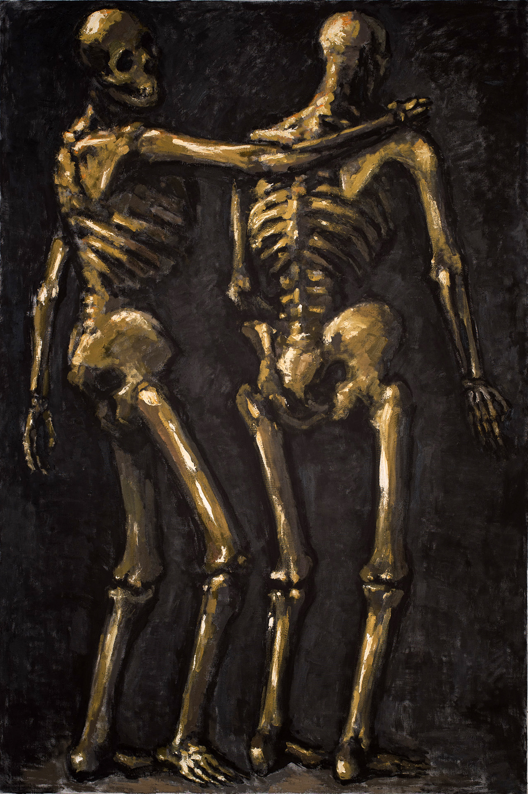 Josef Hnízdil, From nowhere to nowhere, 2016